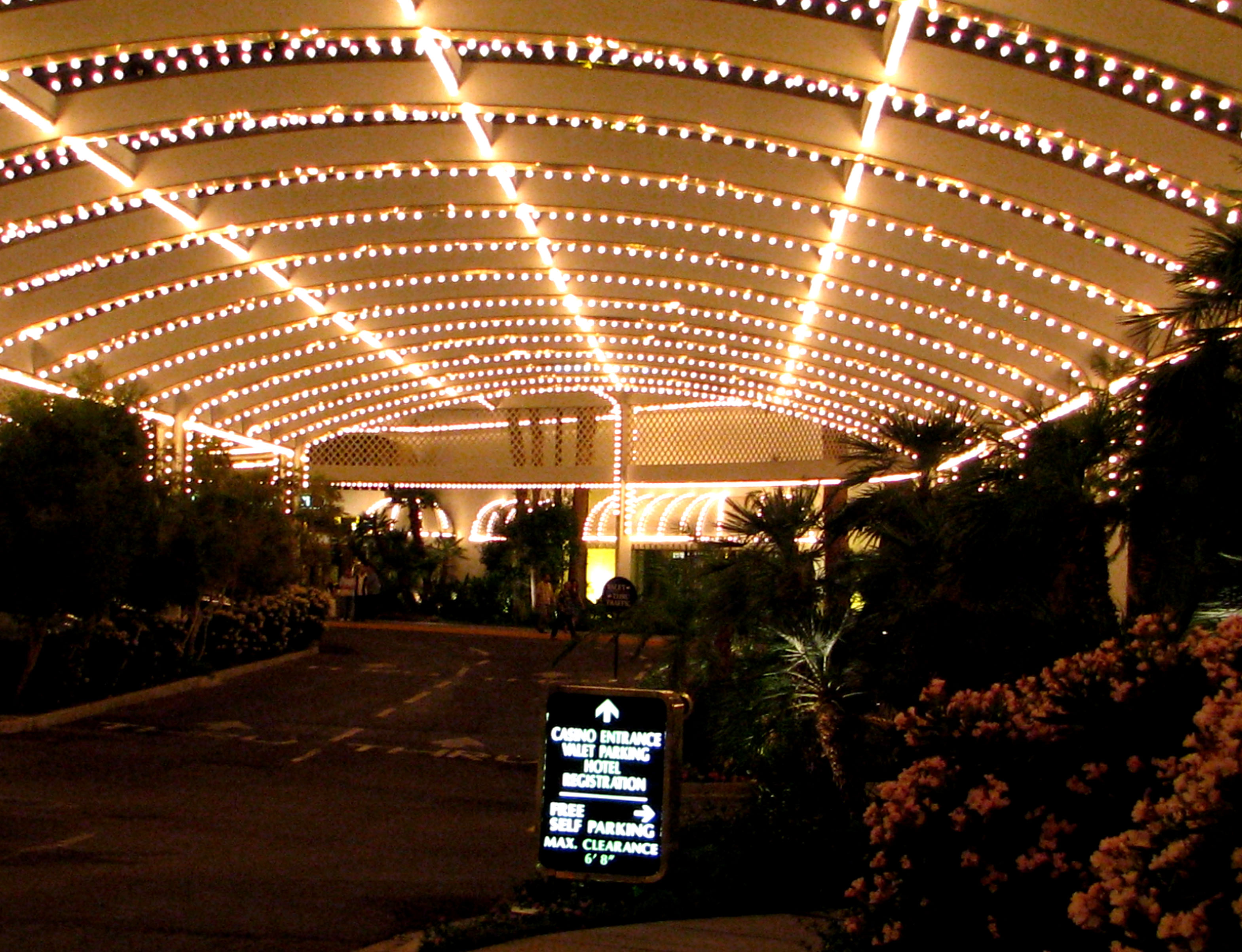 The entry of the Golden Nugget Laughlin